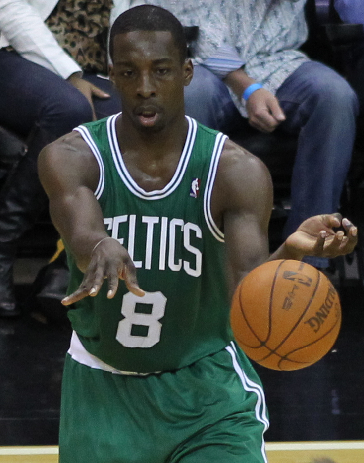 Boston Celtics v/s Washington Wizards April 11, 2011